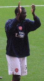 Ivorian football (soccer) player Kolo Touré